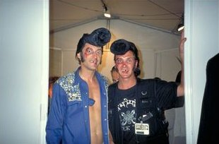 Laurent Caille avec Antoine de Caunes au Festival d Cannes, émission Nulle Part Ailleurs, Canal +